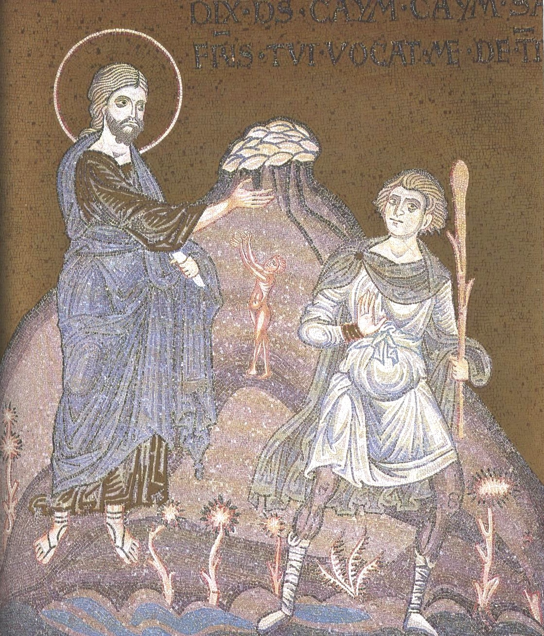 Cain after Abel's murder